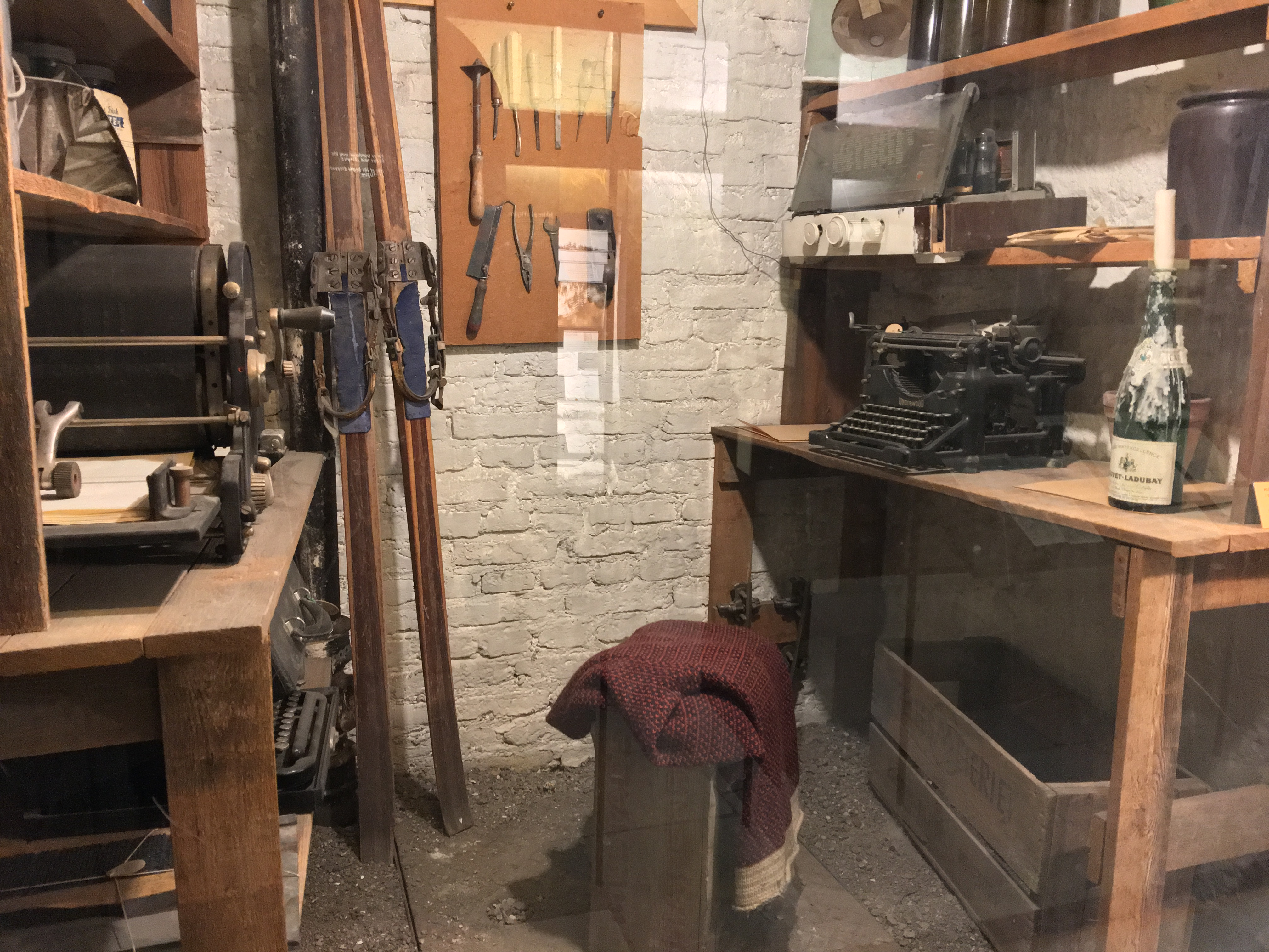 Production of underground newspaper in cellar/basement (produksjon av illegal avis i kjeller under andre verdenskrig i Norge) Photo taken on November 30, 2017 at the exhibition of Norway's WW2 Resistance Museum (Hjemmefrontmuseet) at Akershus fortress in Oslo, Norway.